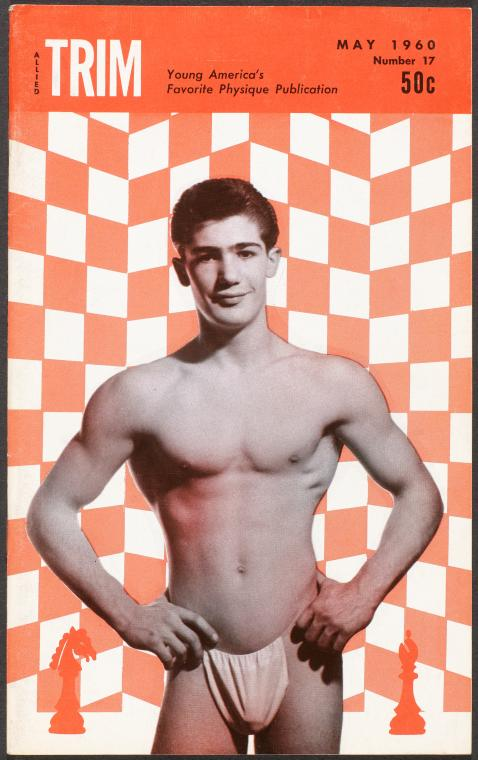 Cover for #17 of TRIM magazine, a physique publication oriented for gay men.